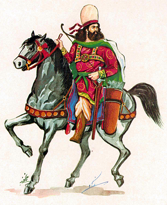 Artistic rendering of a Sasanian spahbed.